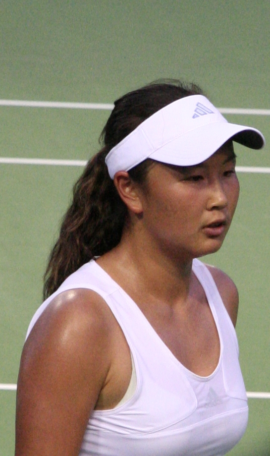 Peng Shuai at the 2007 Australian Open, during her second-round match.